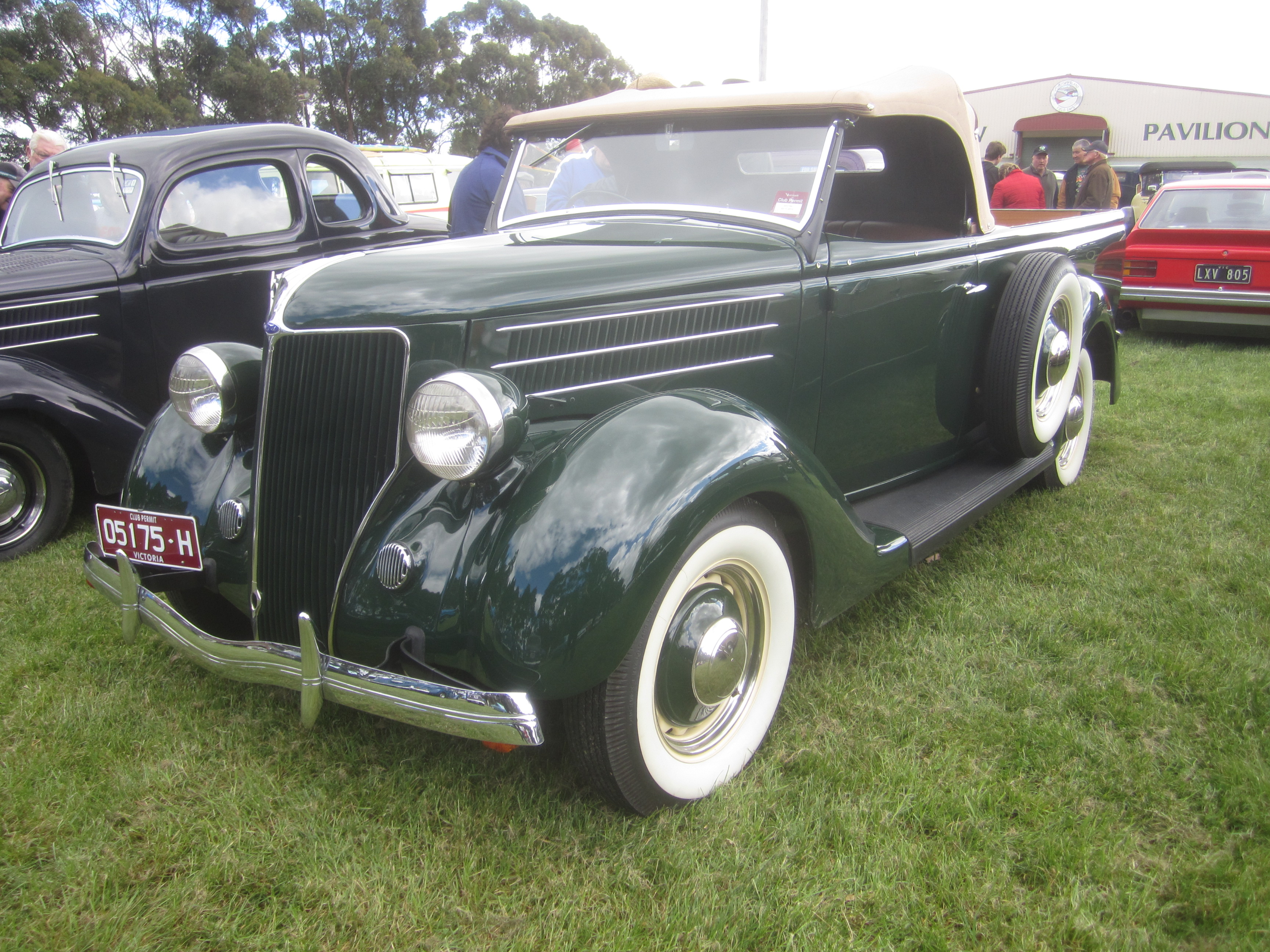 The Model 48 introduced in 1935 got a facelift in 1936 with the hood now coming over the grille which now had vertical bars, Ford Australia was the first company to produce a coupe utility as a result of a 1932 letter from the wife of a farmer in Victoria, Australia asking for “a vehicle to go to church in on a Sunday and which can carry our pigs to market on Mondays”. This model with a fold down soft roof is a roadster utility rather than a coupe utility. Engine; 221 Flathead V8